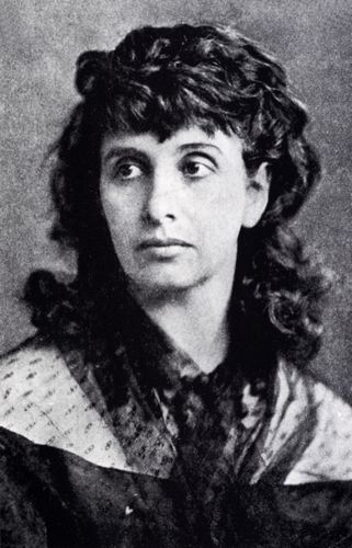 Hedwig Dohm (about 1870)